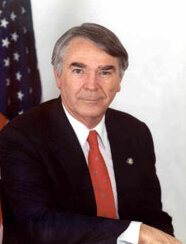 Terry Everett, U.S. Congressman.